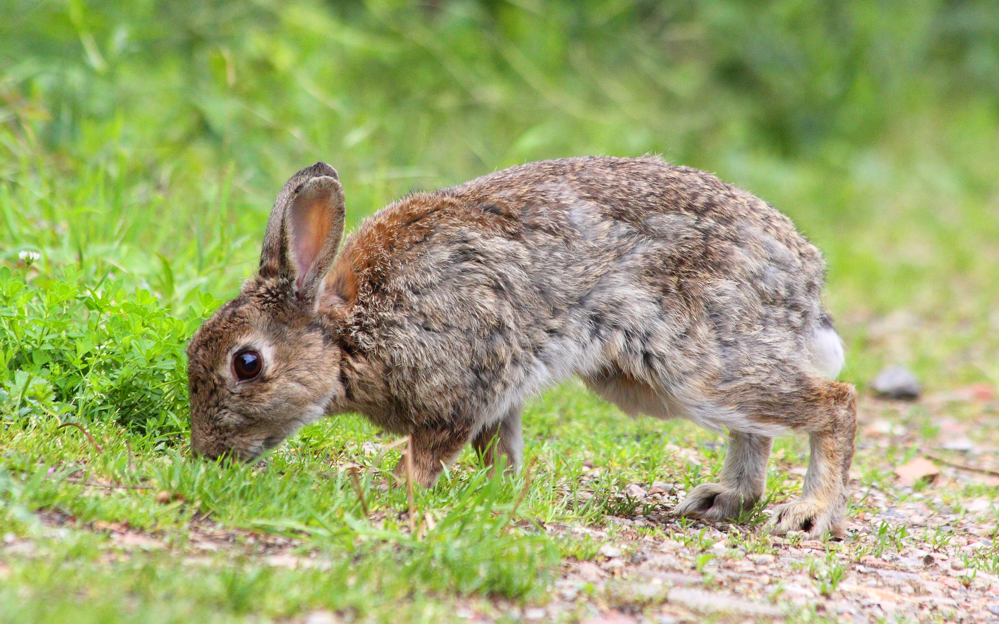 European rabbit (Oryctolagus cuniculus) near Eppelheim, Germany.